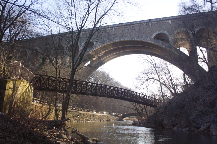 Henry Ave. Bridge I